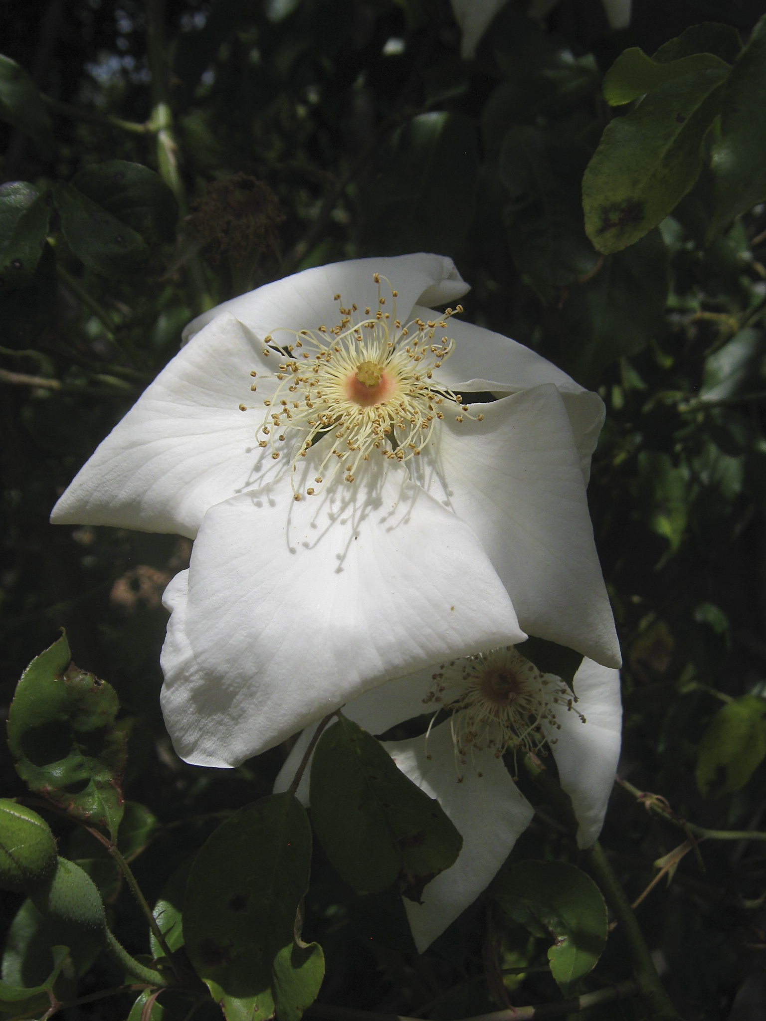 Rosa gigantea, species rose; Photographed in the Alister Clark Memorial Rose Garden, Bulla, VIctoria